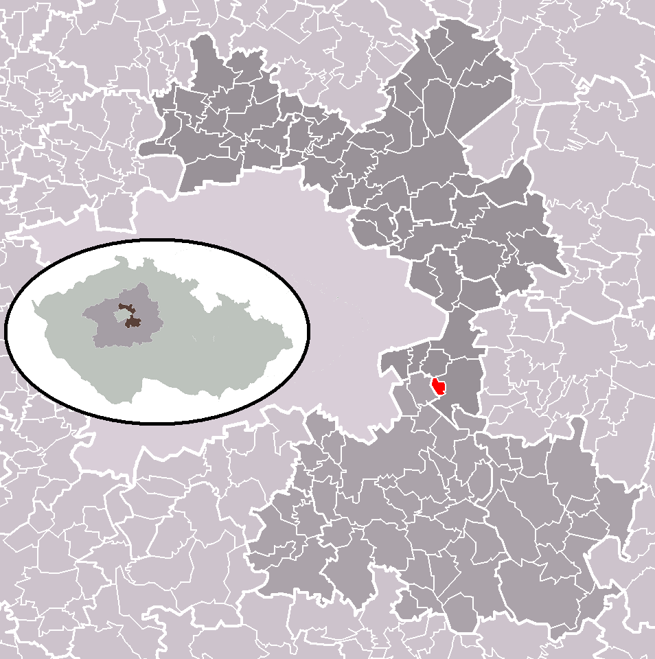 Location of Zlatá municipality within Prague-East District and administrative area of Brandýs nad Labem-Stará Boleslav as a Municipality with Extended Competence.